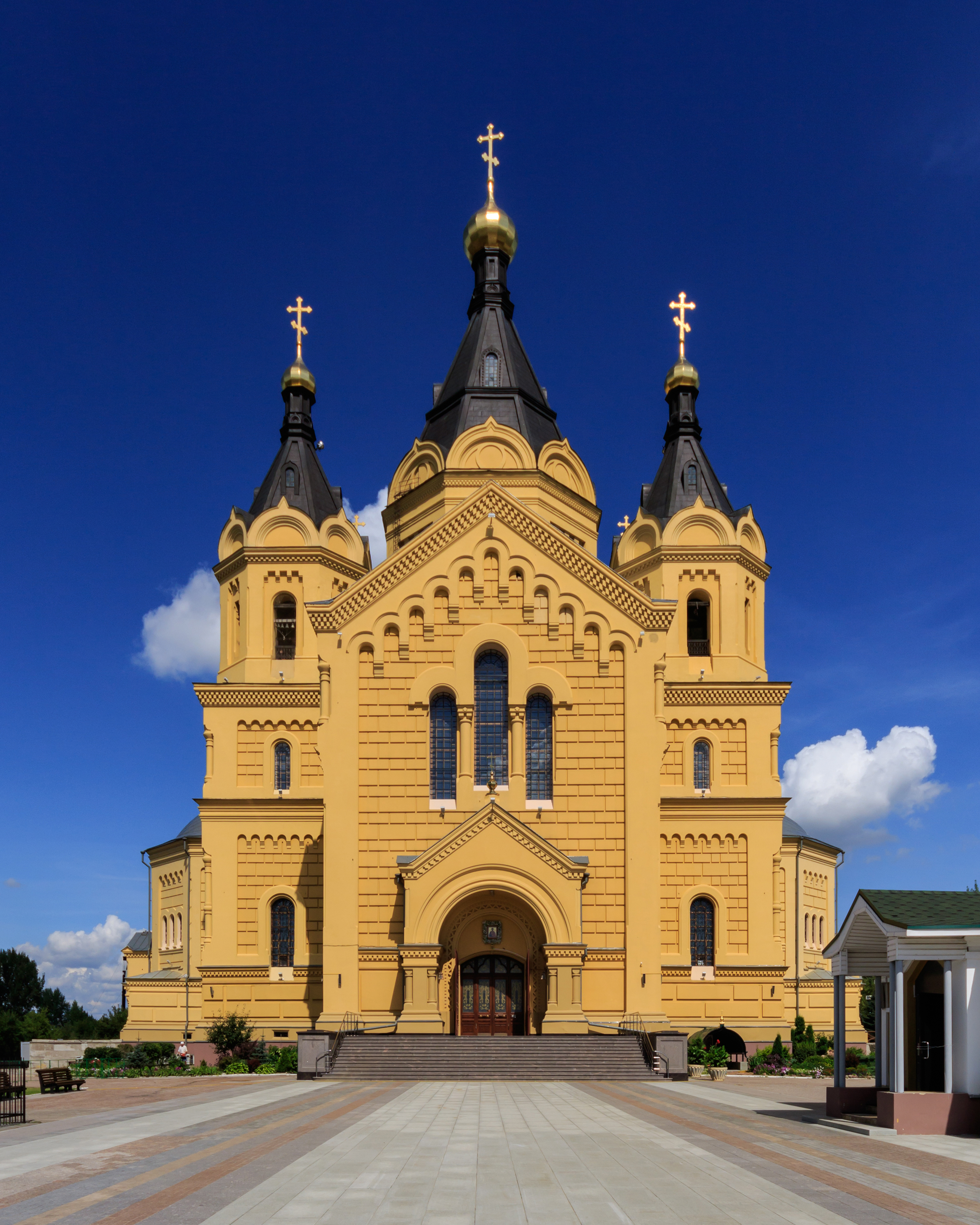 Church of Alexander Nevsky in Nizhny Novgorod, Russia